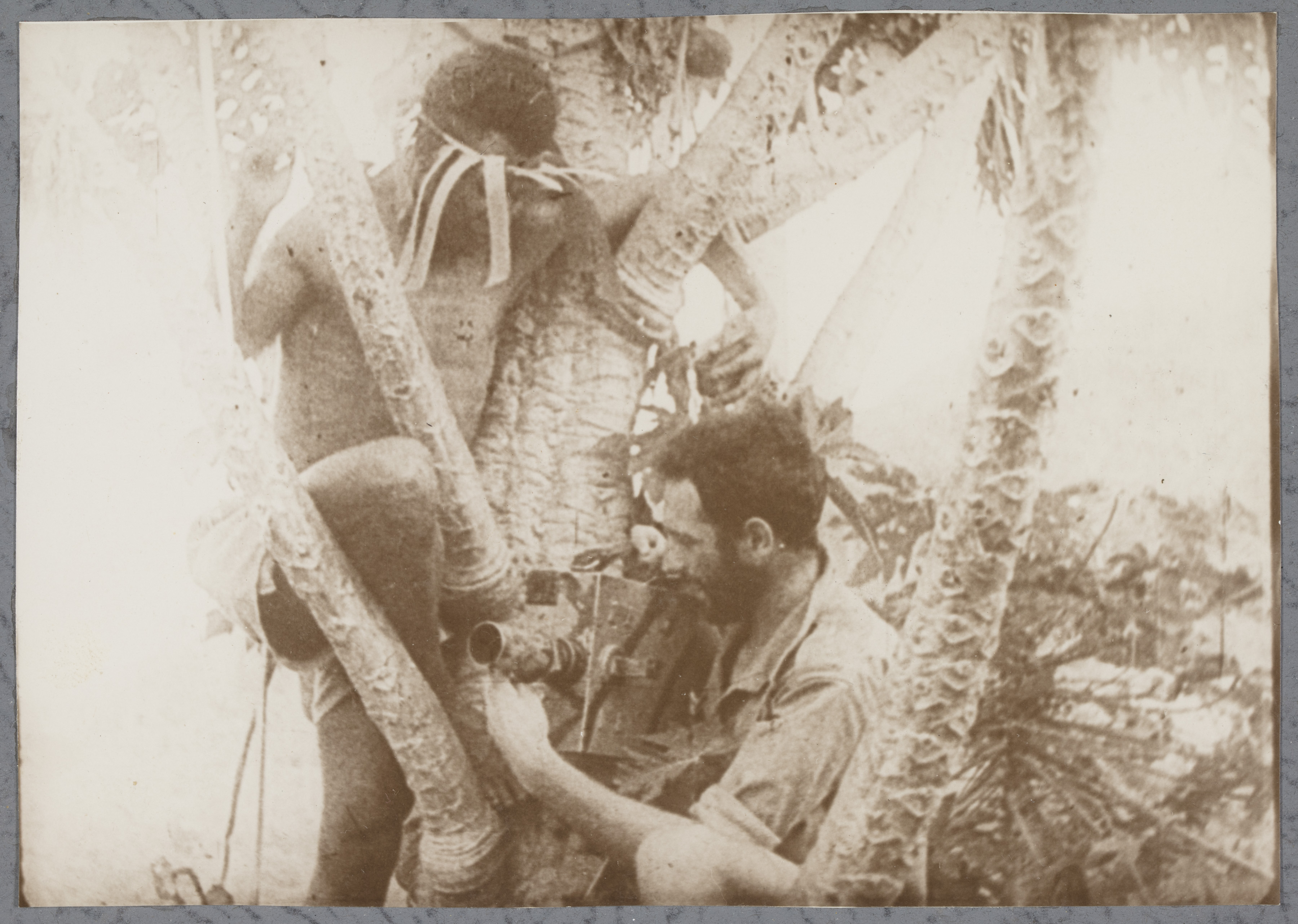 Damien with Papuan Assistant filming the documentary film, Kokoda Front Line, 1942, from print held by State Library of New South Wales PXA 25